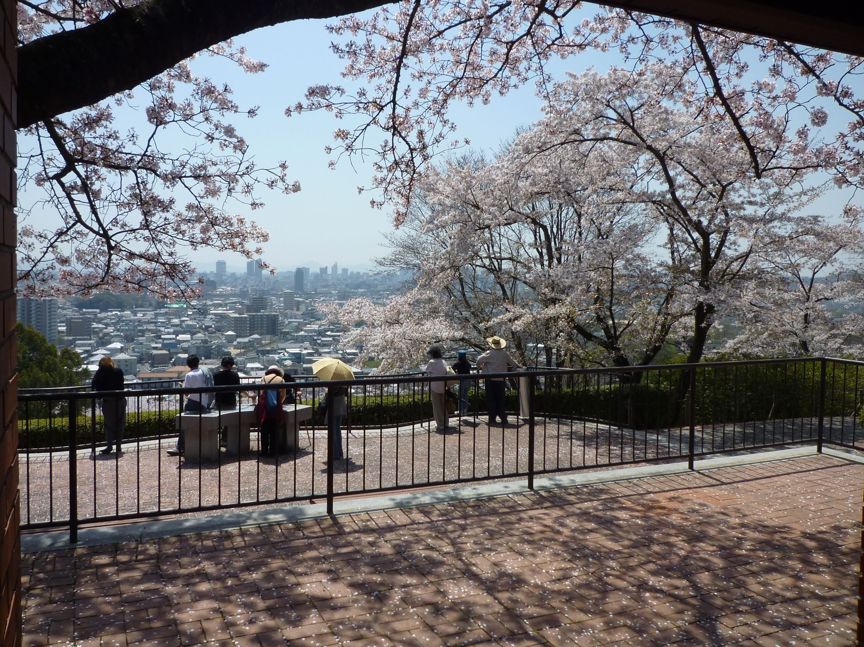 Handayama Botanical Garden (Kita-ku, Okayama city, Okayama Prefecture, JAPAN.)